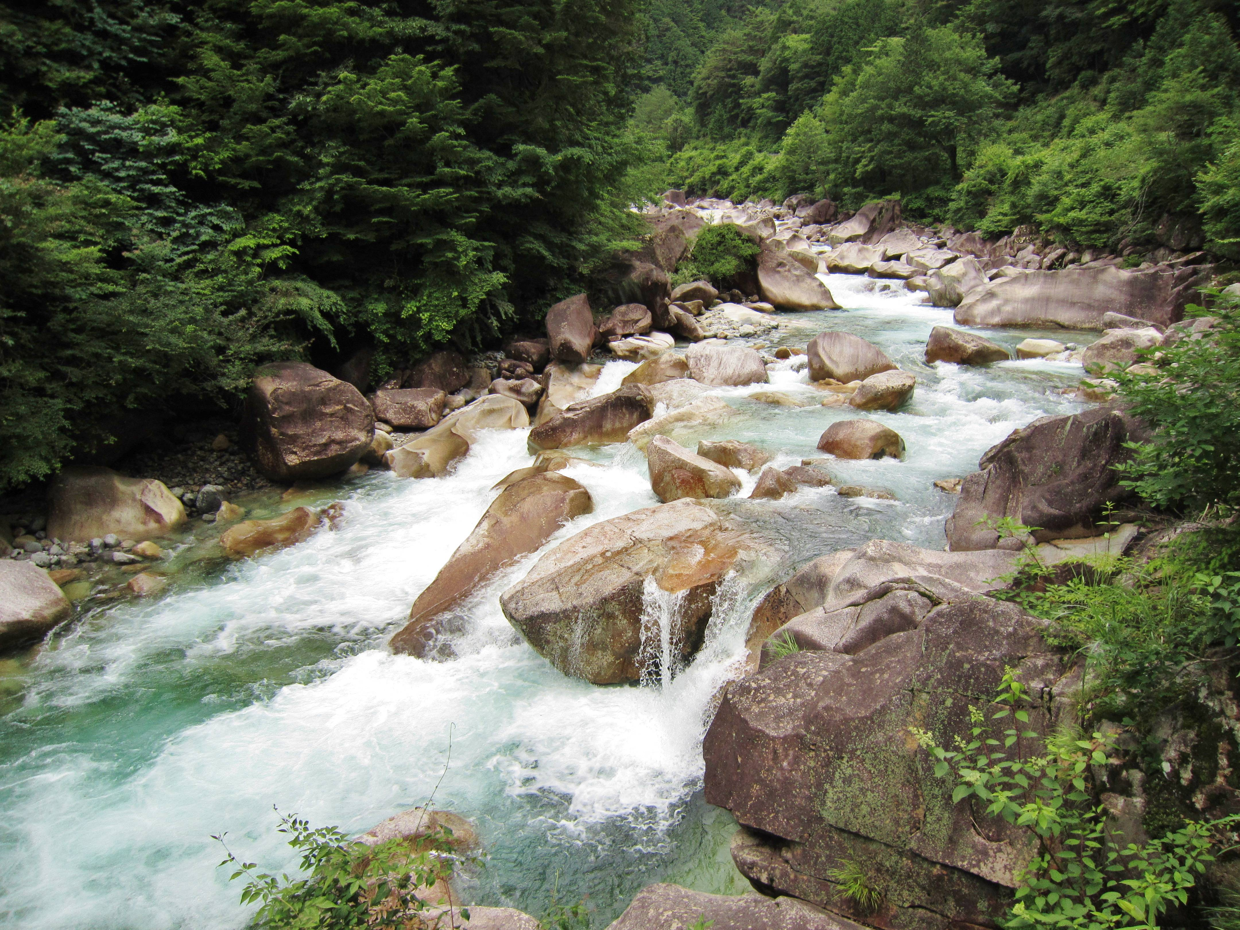 Atera River (Okuwa, Nagano).